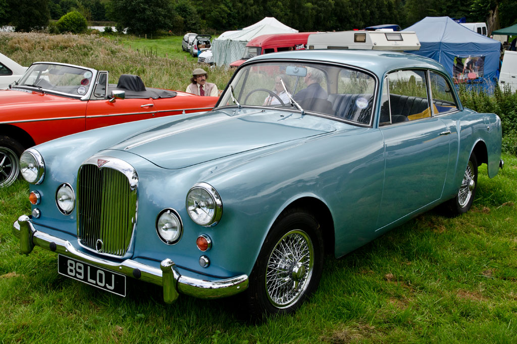 Cholmondeley Classic Car & Bike Show 02/09/2012 Series II FHC built between 1962 and 1963